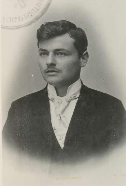 France Kidrič (1880-1950), slovene literary historian.